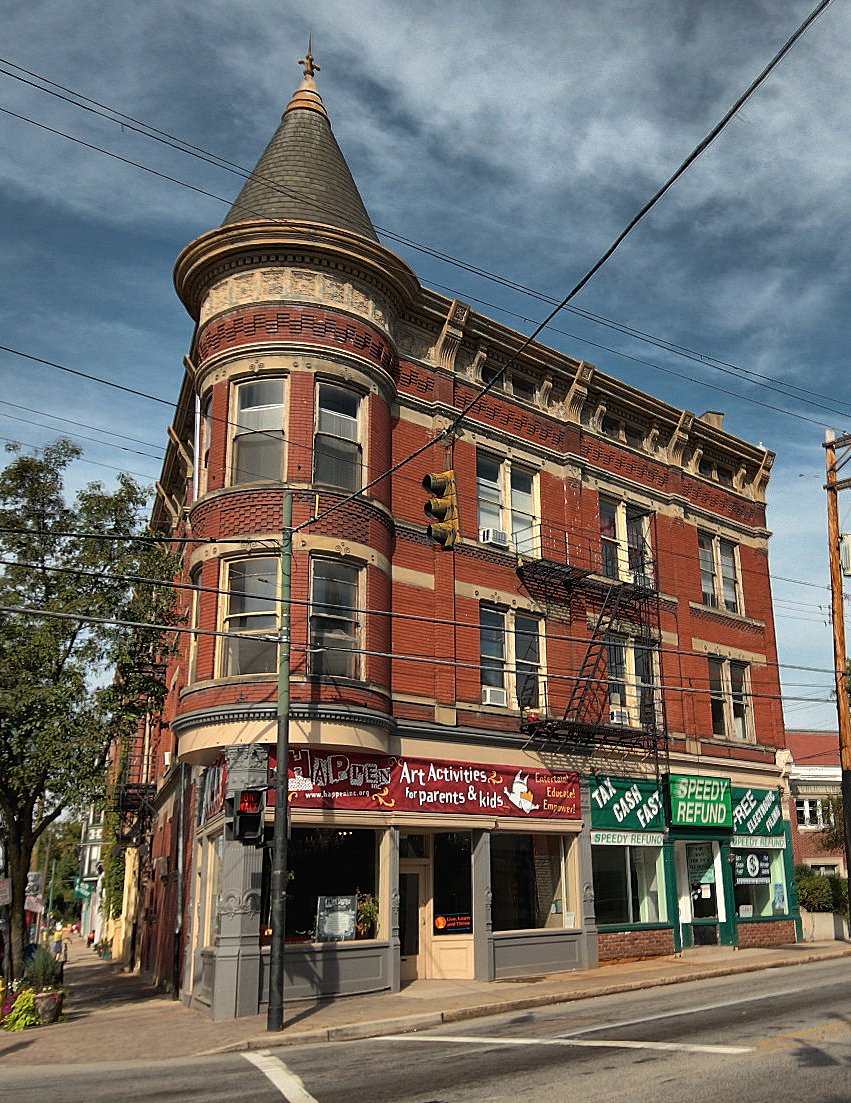 Domhoff building in Cincinnati, OH. Photo by Greg Hume